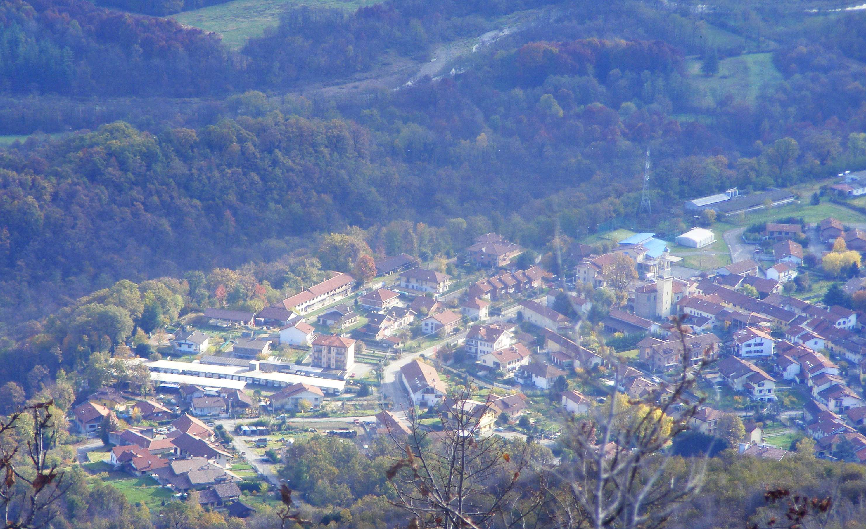 La Cassa (TO, Italy) from Mount Bernard (1079 m)